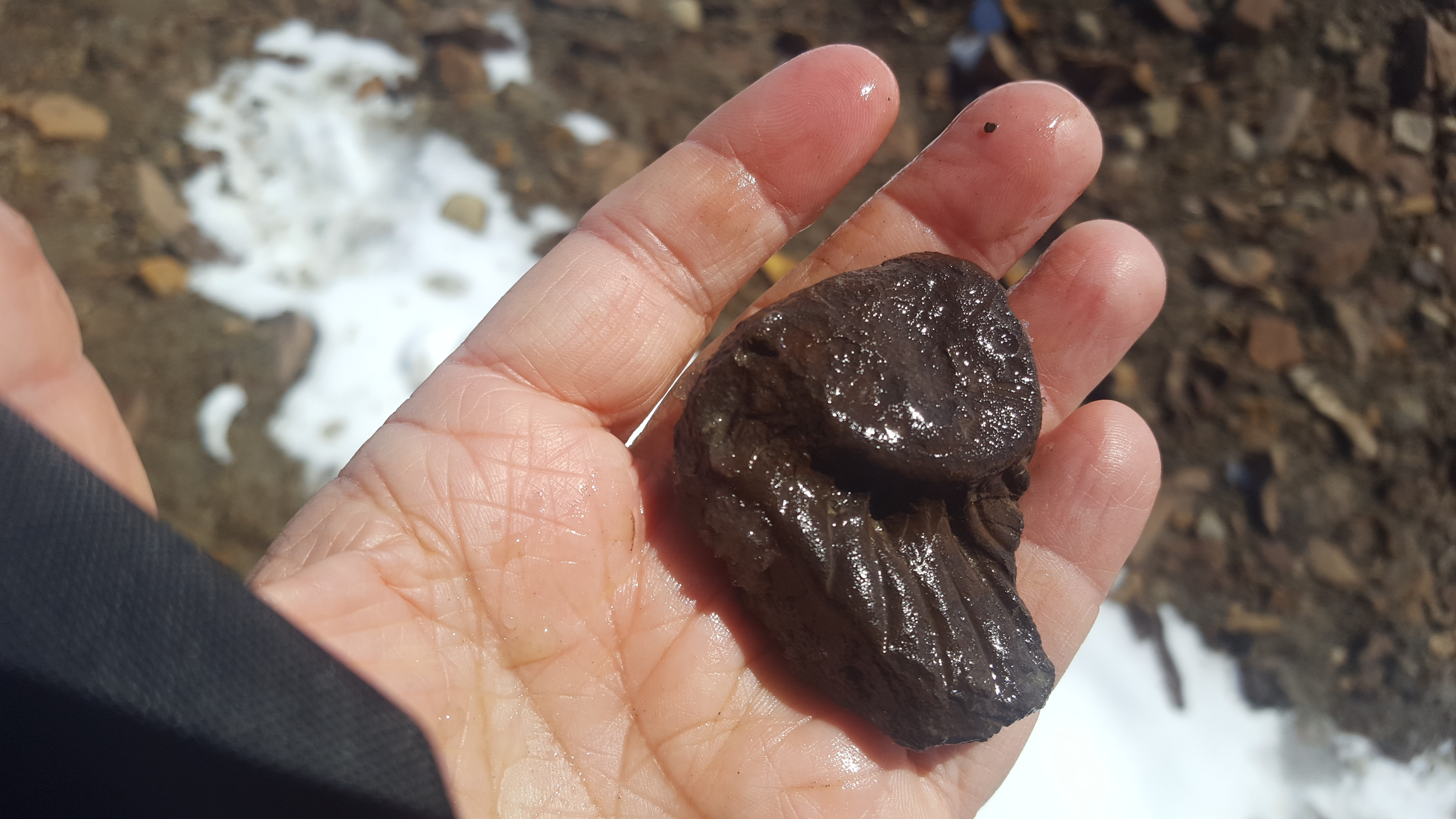 Partial ammonite dating from Cretaceous